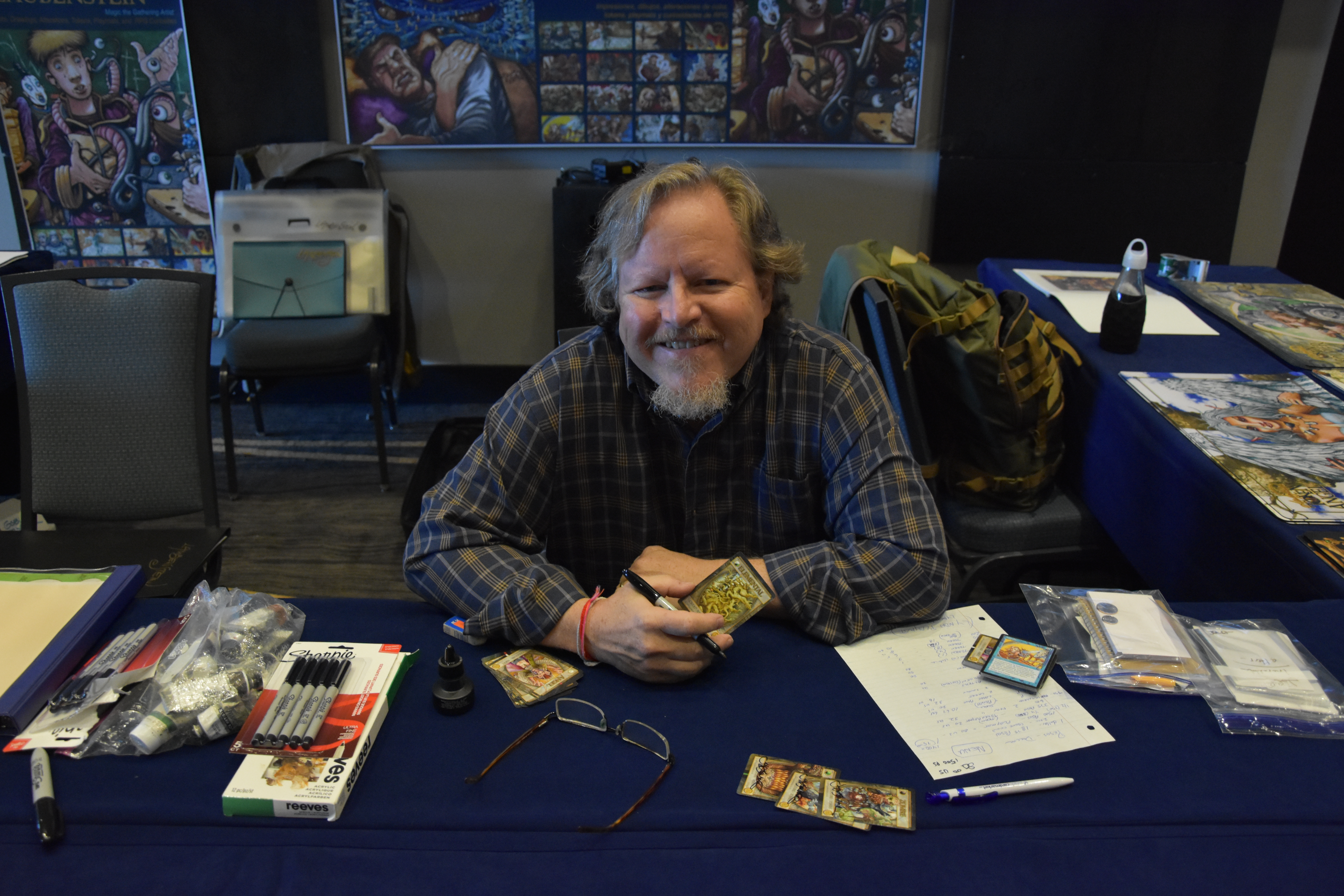 American fantasy artist Jeff Laubenstein at Magic: The Gathering Grand Prix in Mexico City in 2018.